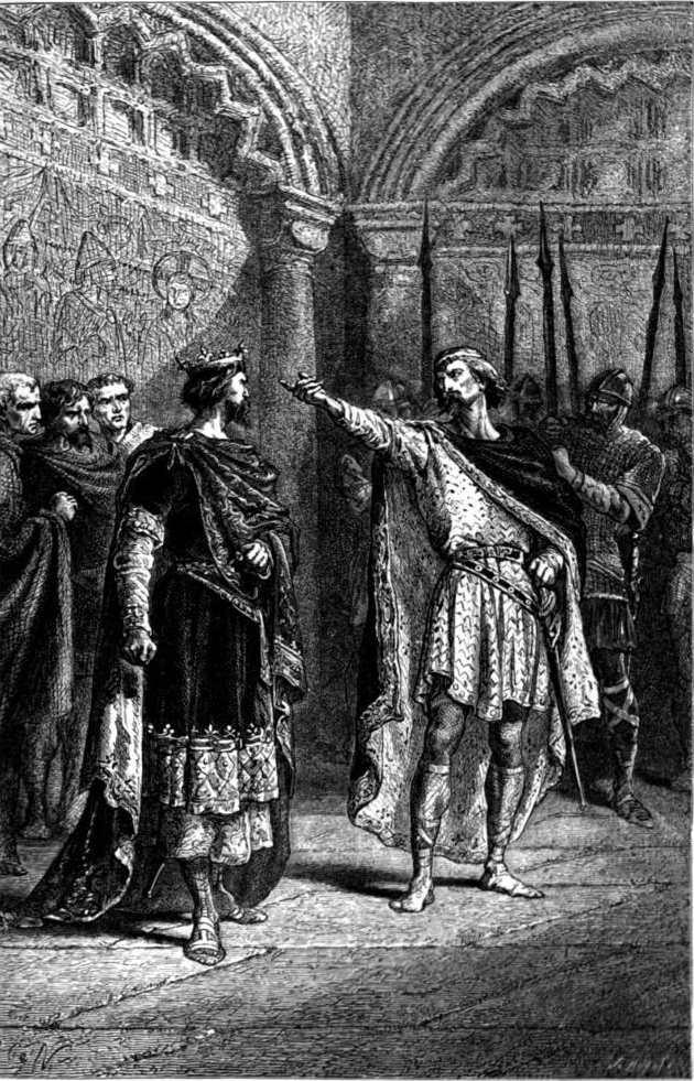 King Hugh Capet “Who made thee King?”